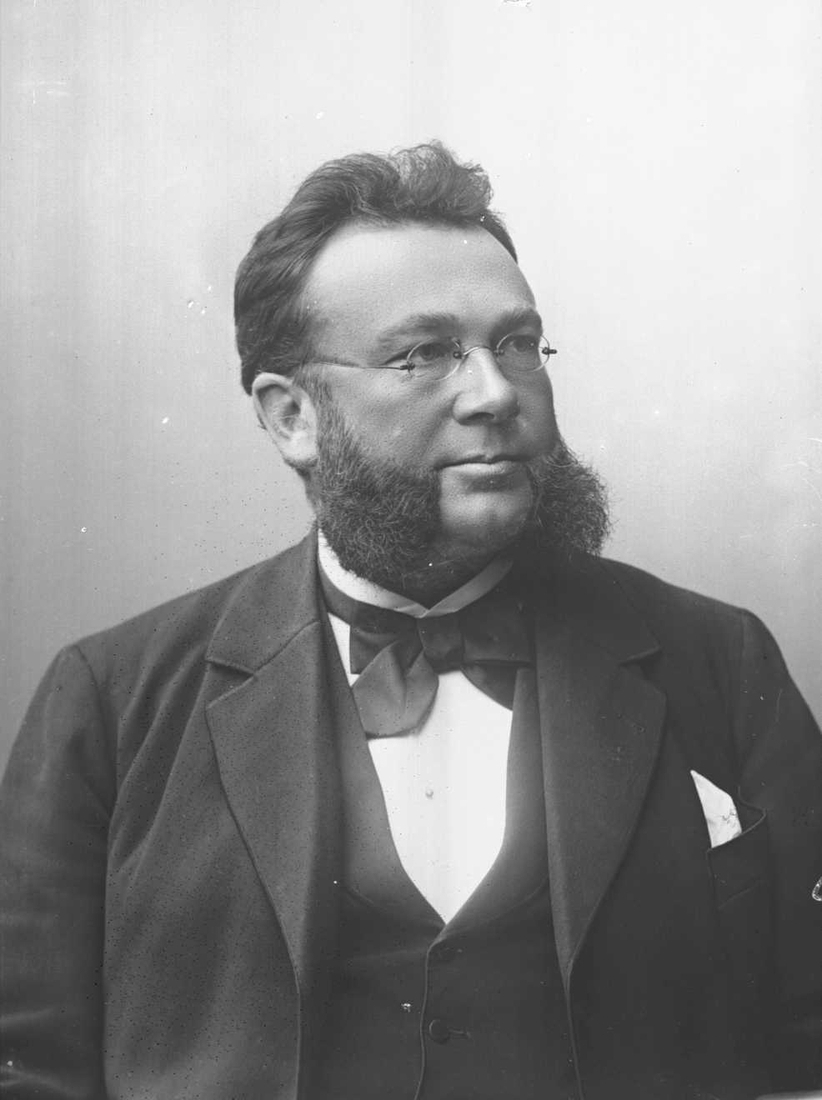 Iver Holter, Norwegian conductor and composer, ca. 1895